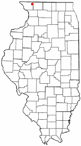 Category:Illinois city locator maps